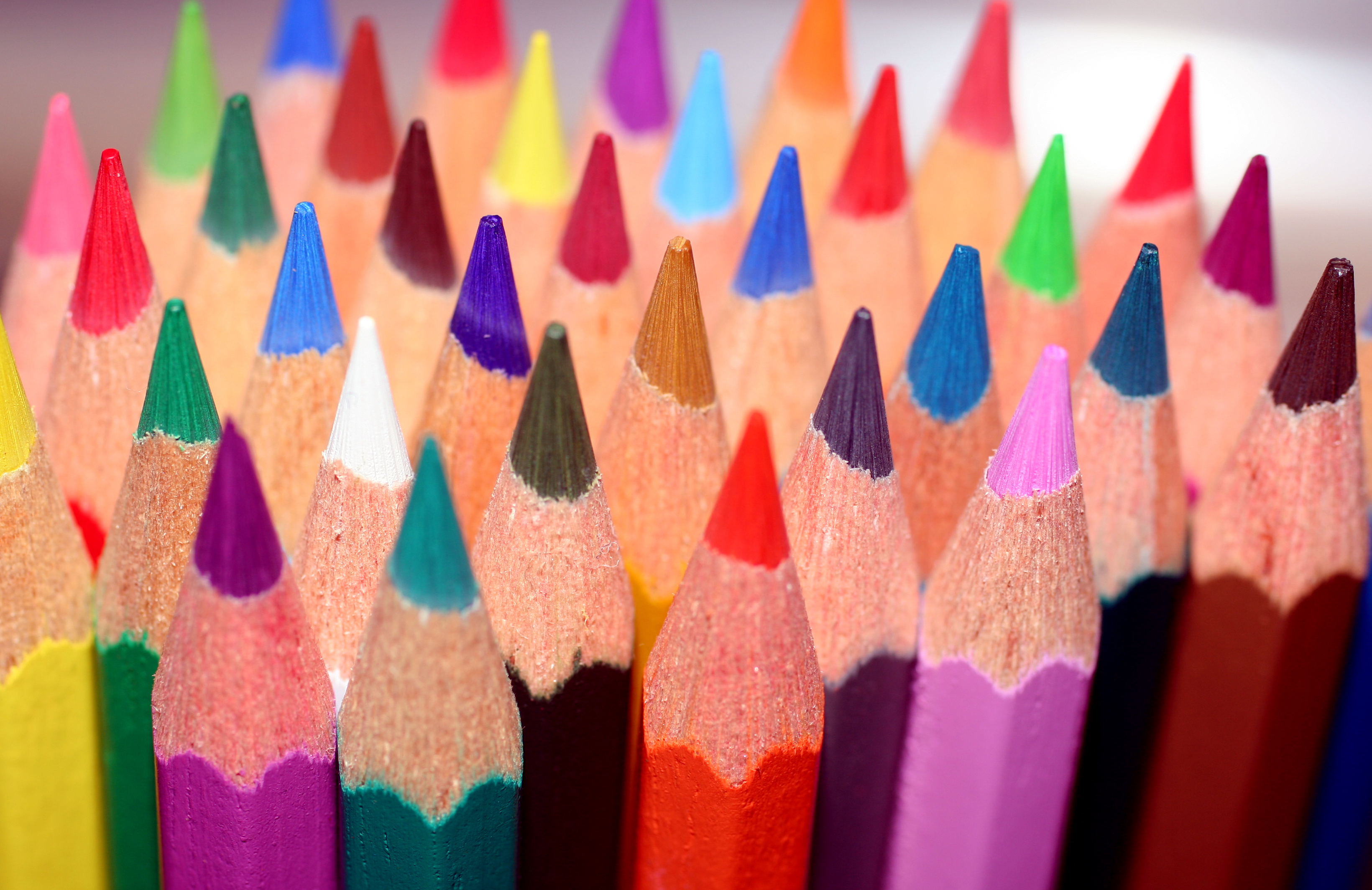 Colour pencils.